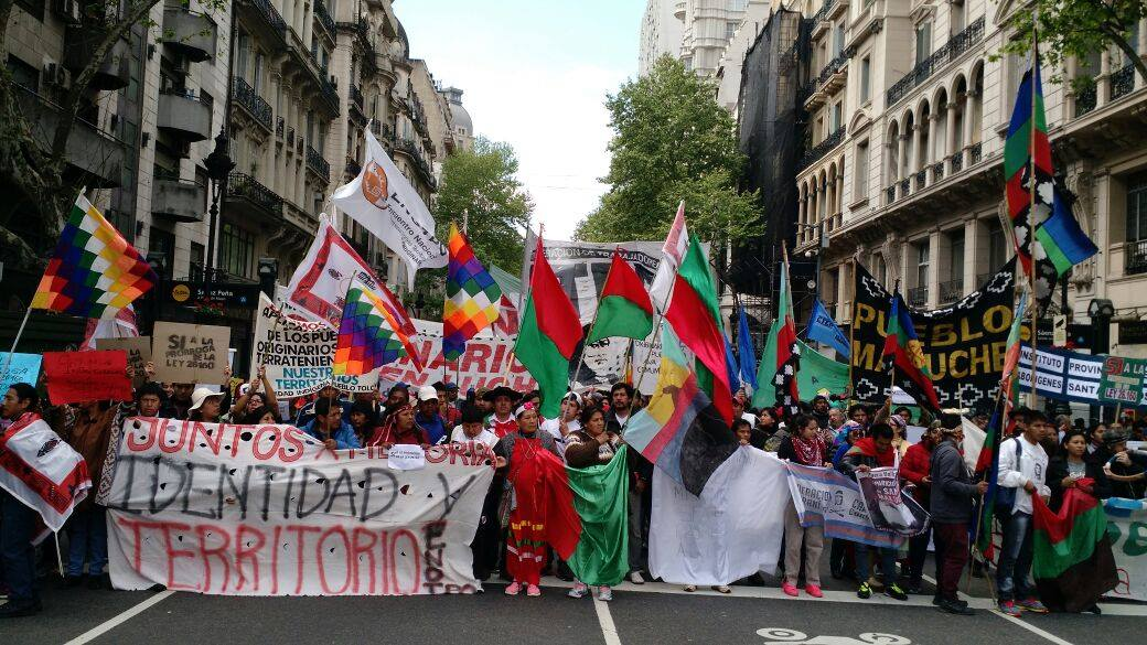 Mapuches mobilizing for the extension of the Indigenous Lands law